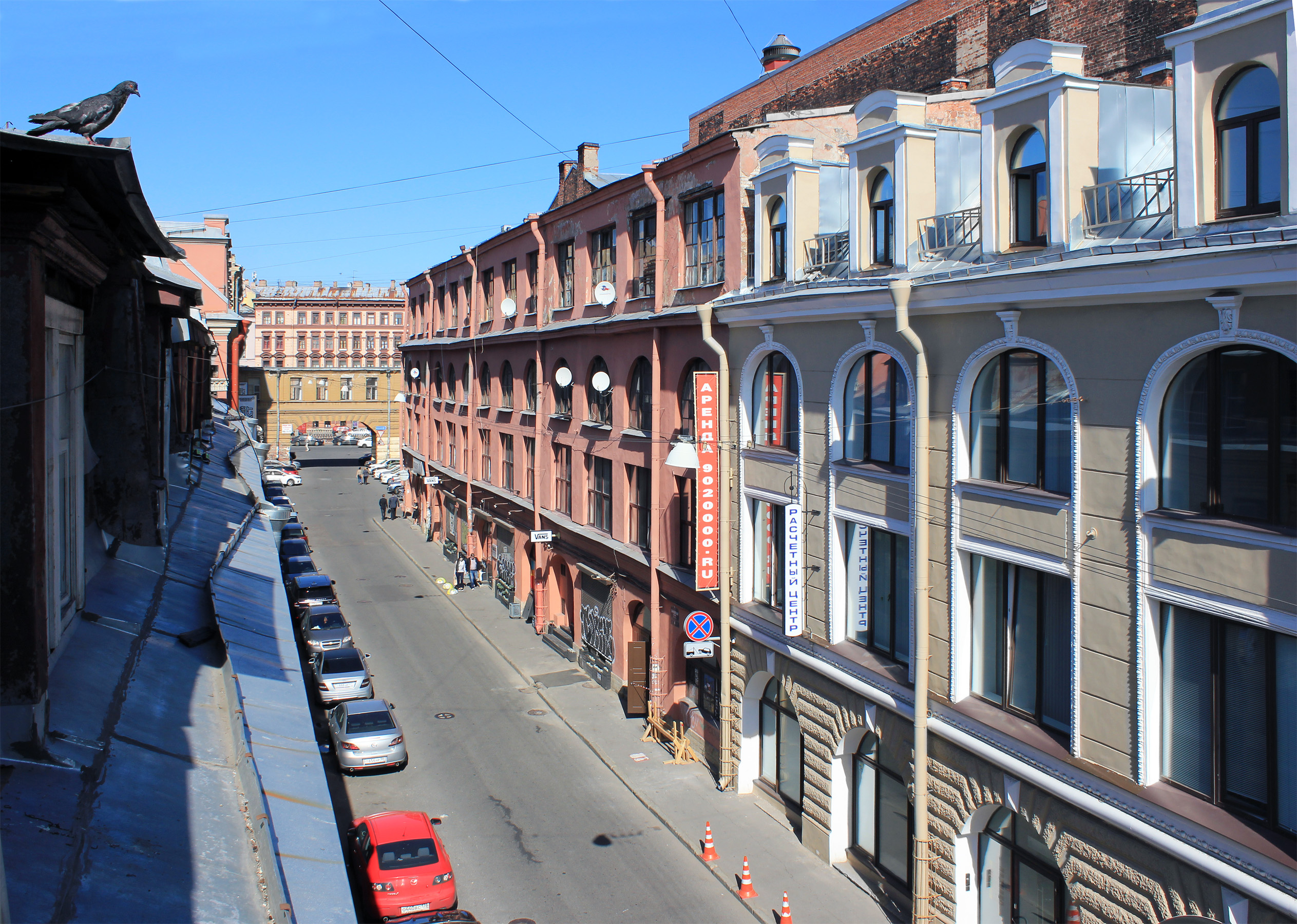 Saint Petersburg. Bankovsky lane ('pereulok')